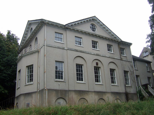 Foley House, side view The house commands fine views over the town and beyond and when built must have been situated in a beautiful position. The remains of the town wall are just behind. Now the house is hemmed in by other buildings and what remains of the grounds have been turned into an ugly car park. The house was converted into council offices in the 1950s and now stands empty and lamentably neglected.